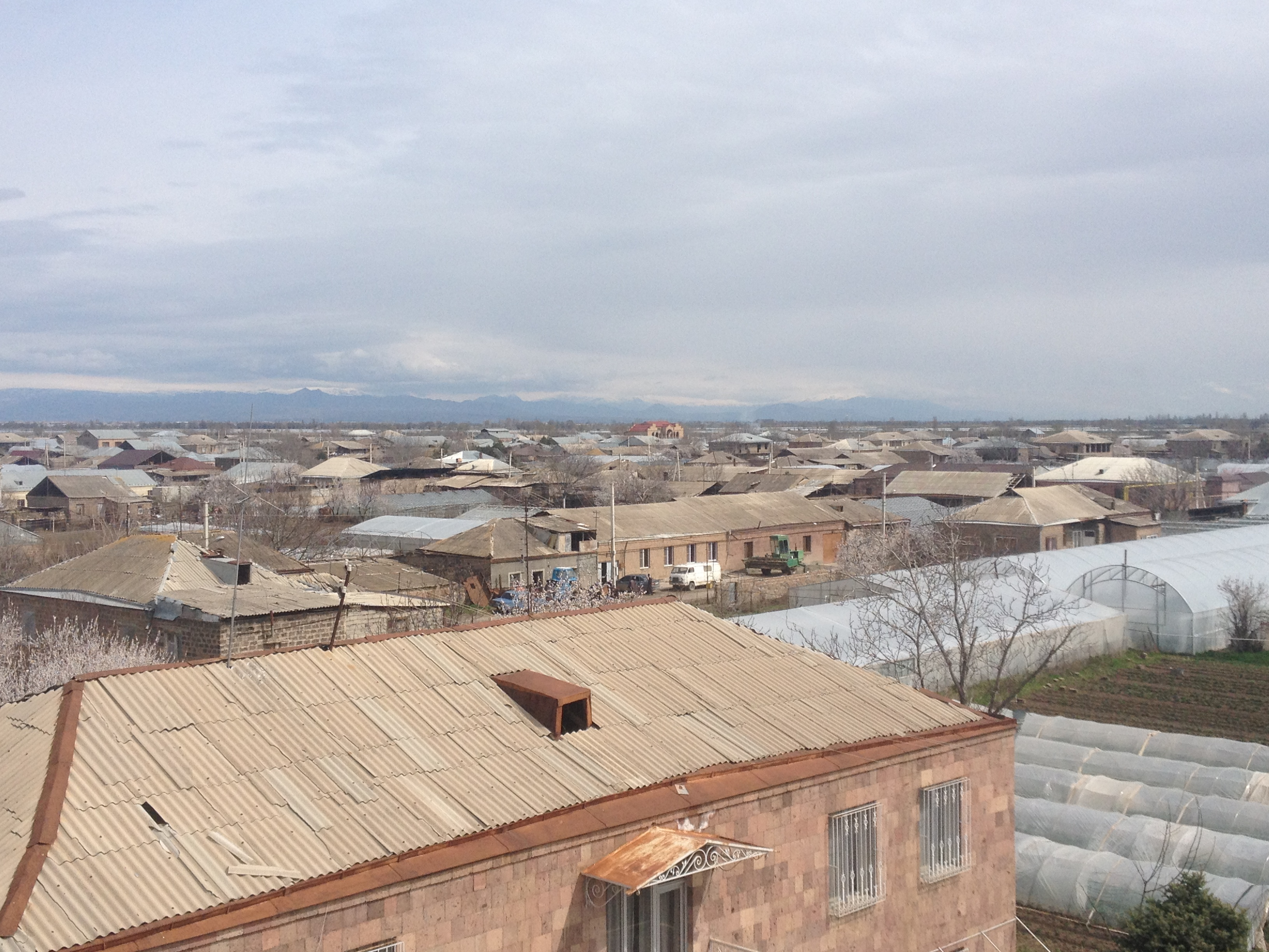 Դուք Տեսնում էք արշալույս գյուղը Մշակույթի տան Ամենա բարձր դիրքից